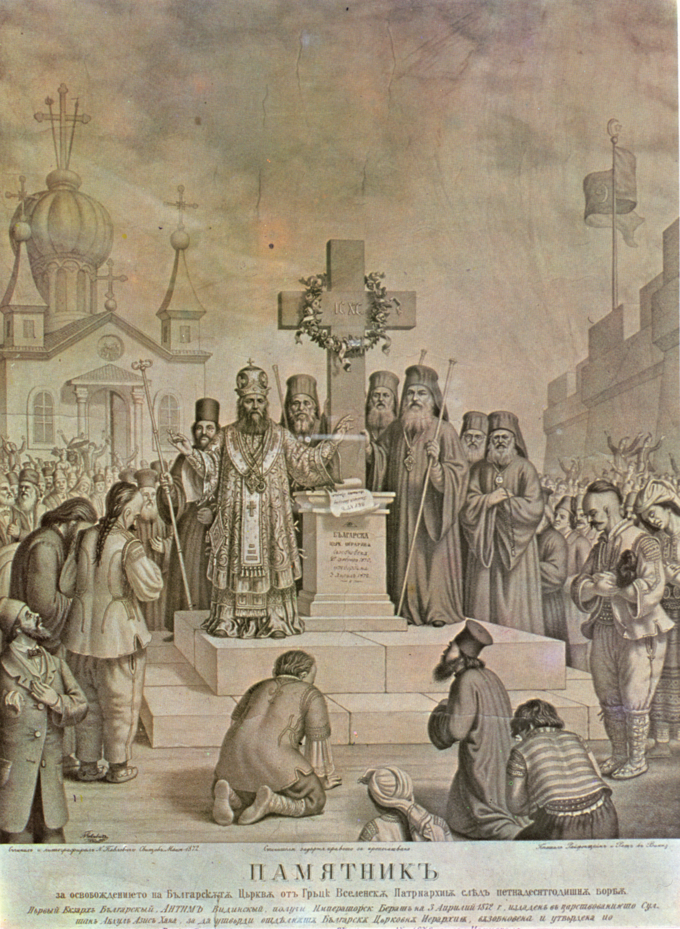 "Memorial of the liberation of the Bulgarian Church from the Greek Ecumenical Patriarchate after fifteen years of struggle", lithography.